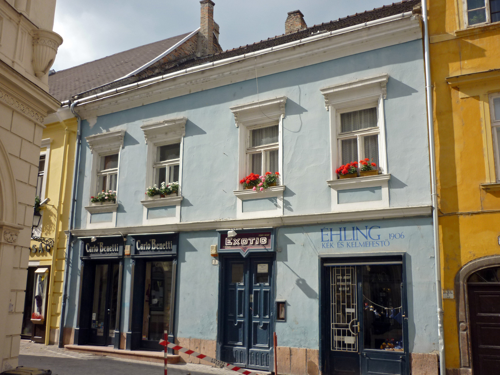 This baroque houses built in early 17th-century and its got a Romantic facade in the 19th-century This is a photo of a monument in Hungary, Identifier: 4219